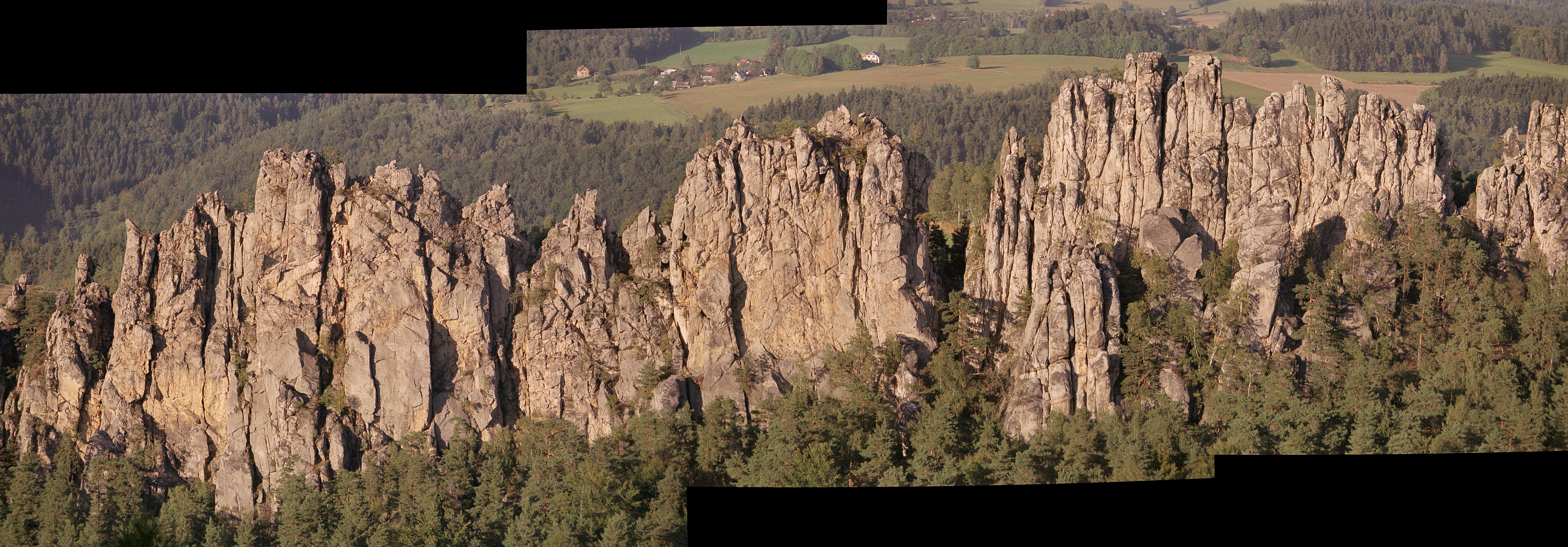 NPP Suché skály (katastrální území Besedice, obec Koberovy, okres Jablonec nad Nisou) Suché skály (Dry Rocks) National Monument of Nature near Malá Skála in the Czech Republic in Český Ráj (Bohemian Paradise) a plate/plaice of sandstone, which was turned 90 degrees, so that it is upright now picture taken from a viewpoint near the mountain Sokol (hawk)